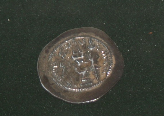 Sasanid shah Khosrov I (Ayiran, Aran-Beylagan), silver, dirham